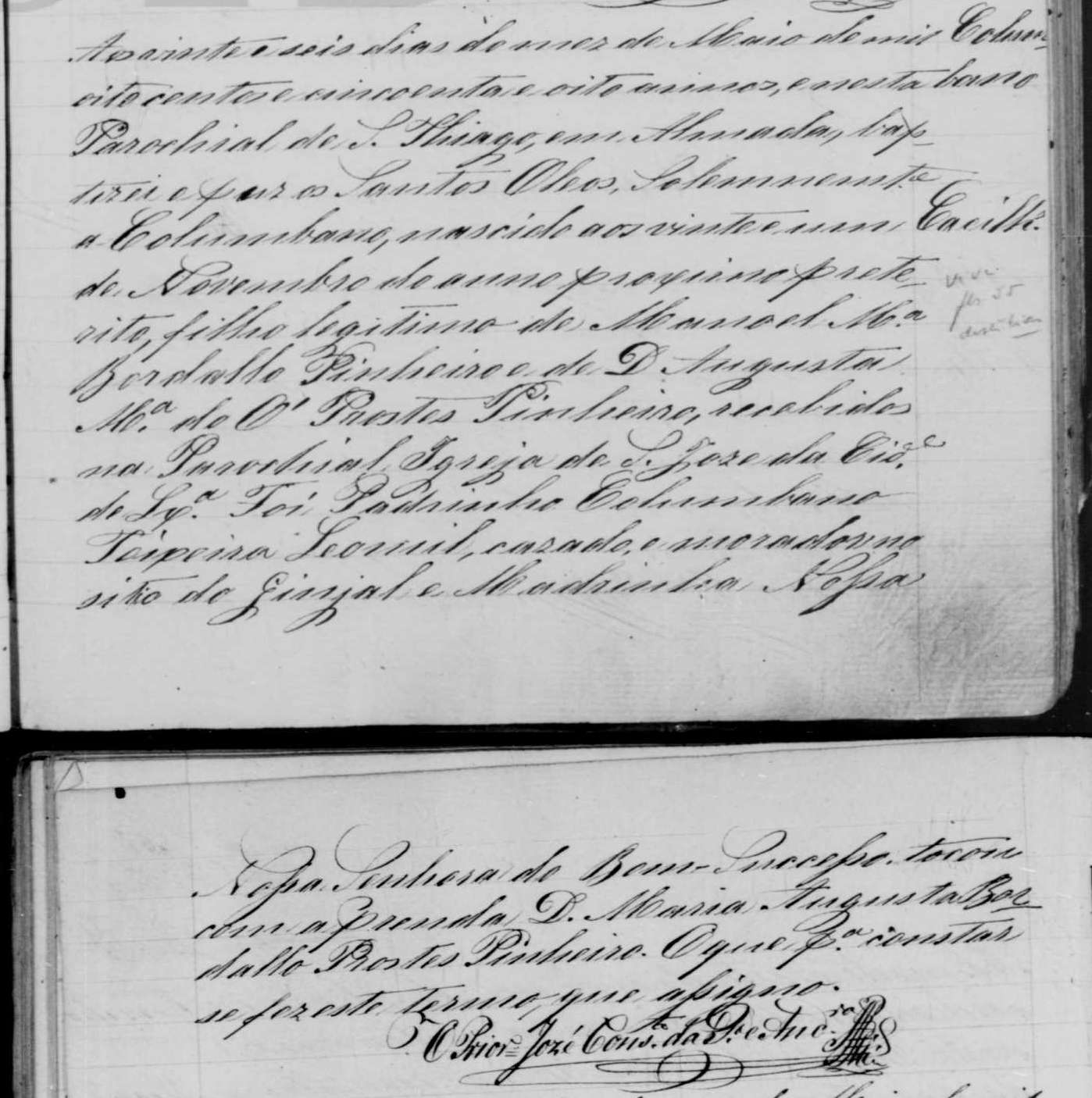 Baptism register (at the time, the equivalent of a birth record) of Columbano Bordalo Pinheiro (1857-1929), dated 26 May 1858. São Tiago Parish, Almada, Portugal.